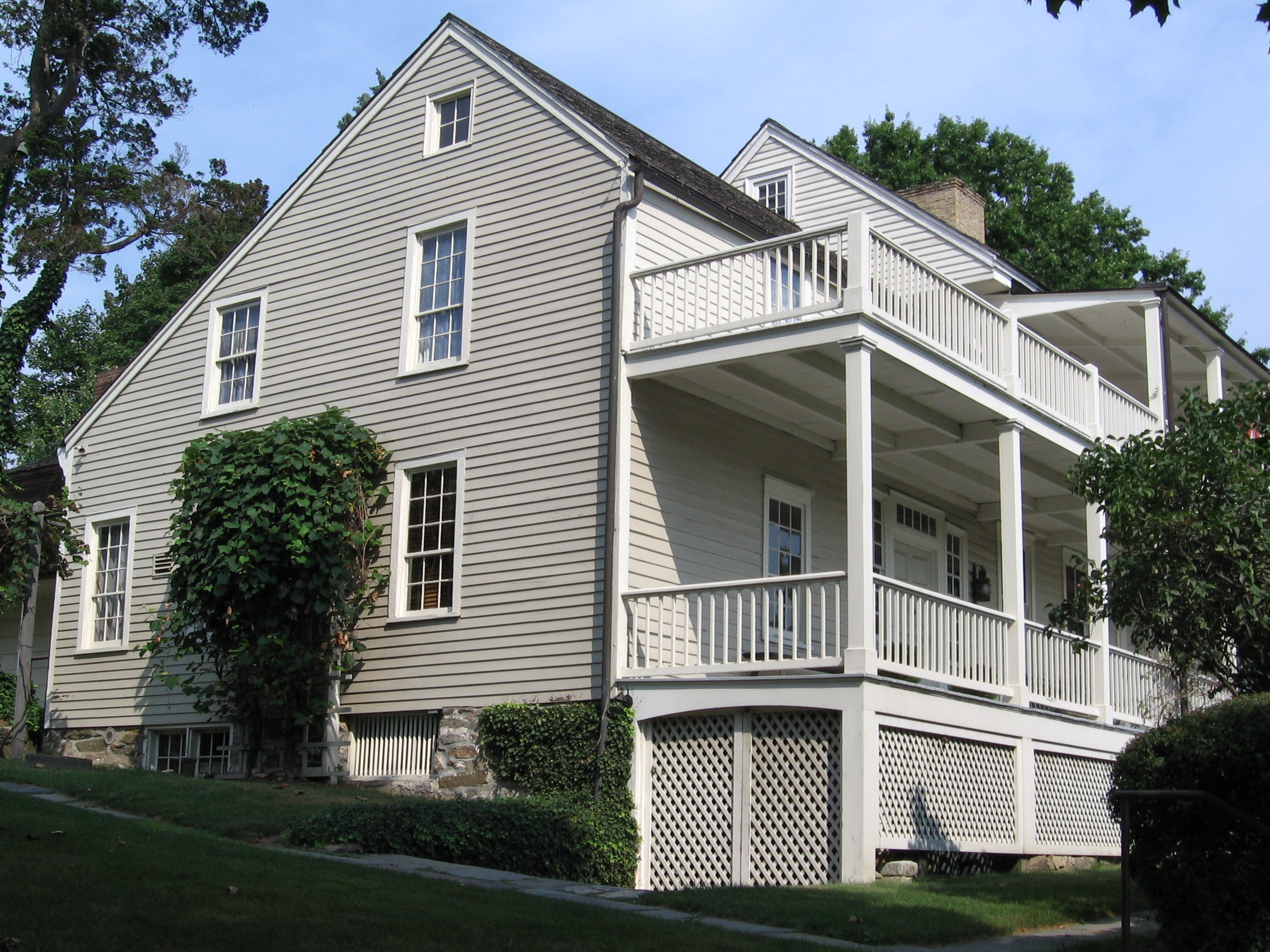 Bush-Holley House in the Cos Cob section of Greenwich, Connecticut, viewed from the southeast corner